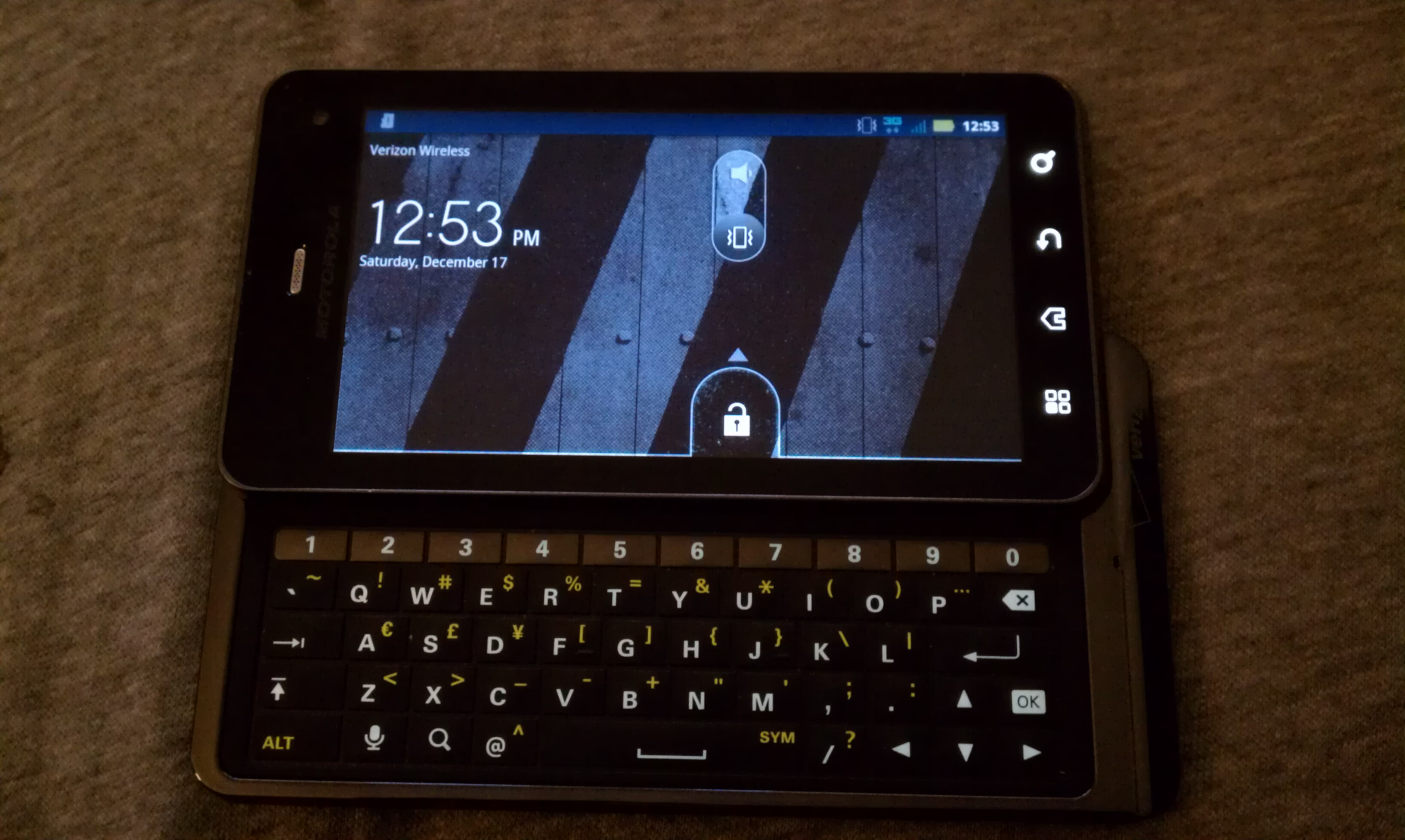 Motorola DROID 3 keyboard view.